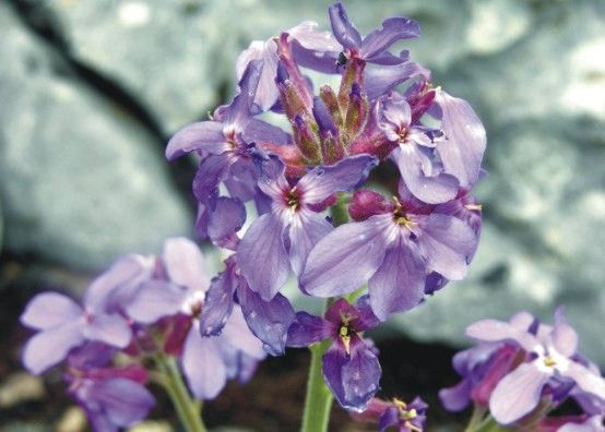 Hesperis theophrasti